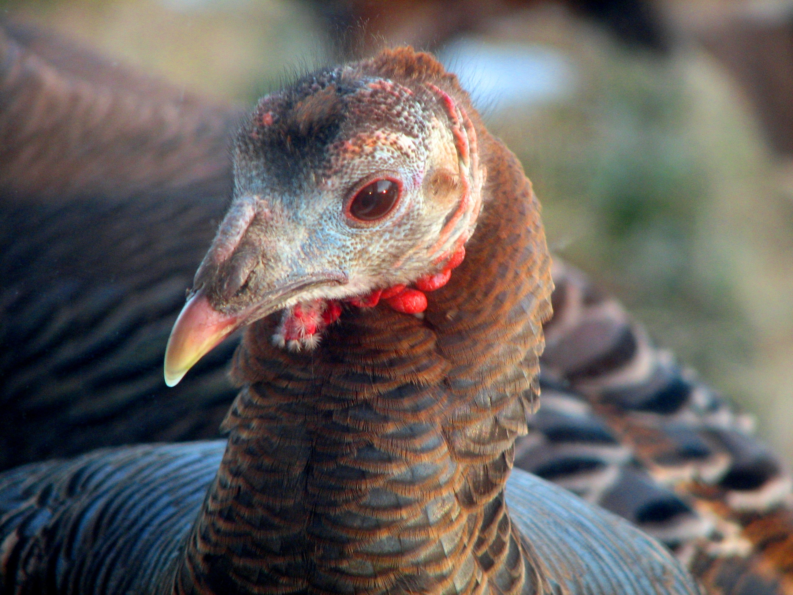 Turkey looking in through a window.